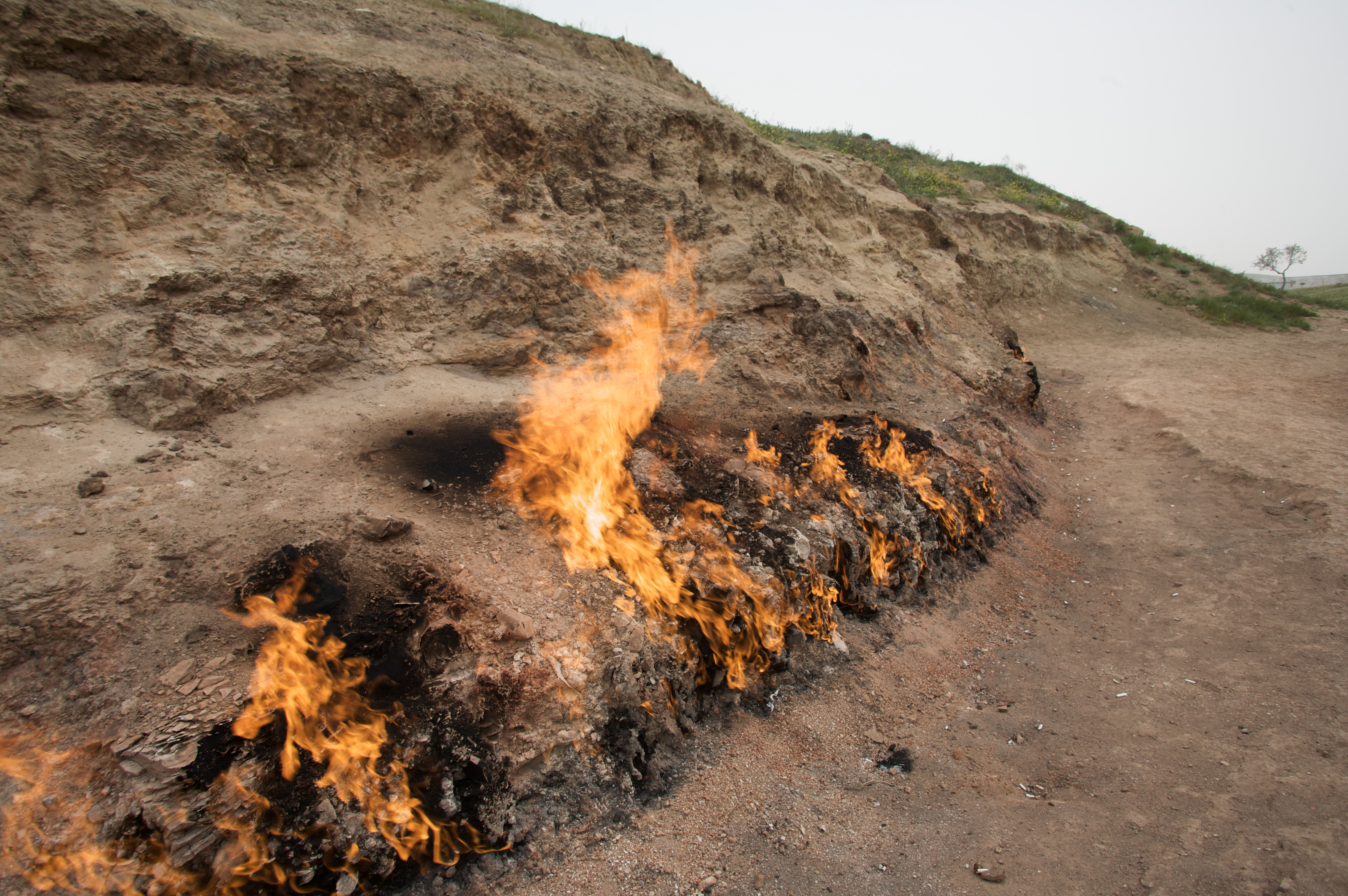 Another view of Yanar Dag - Flaming Hillside